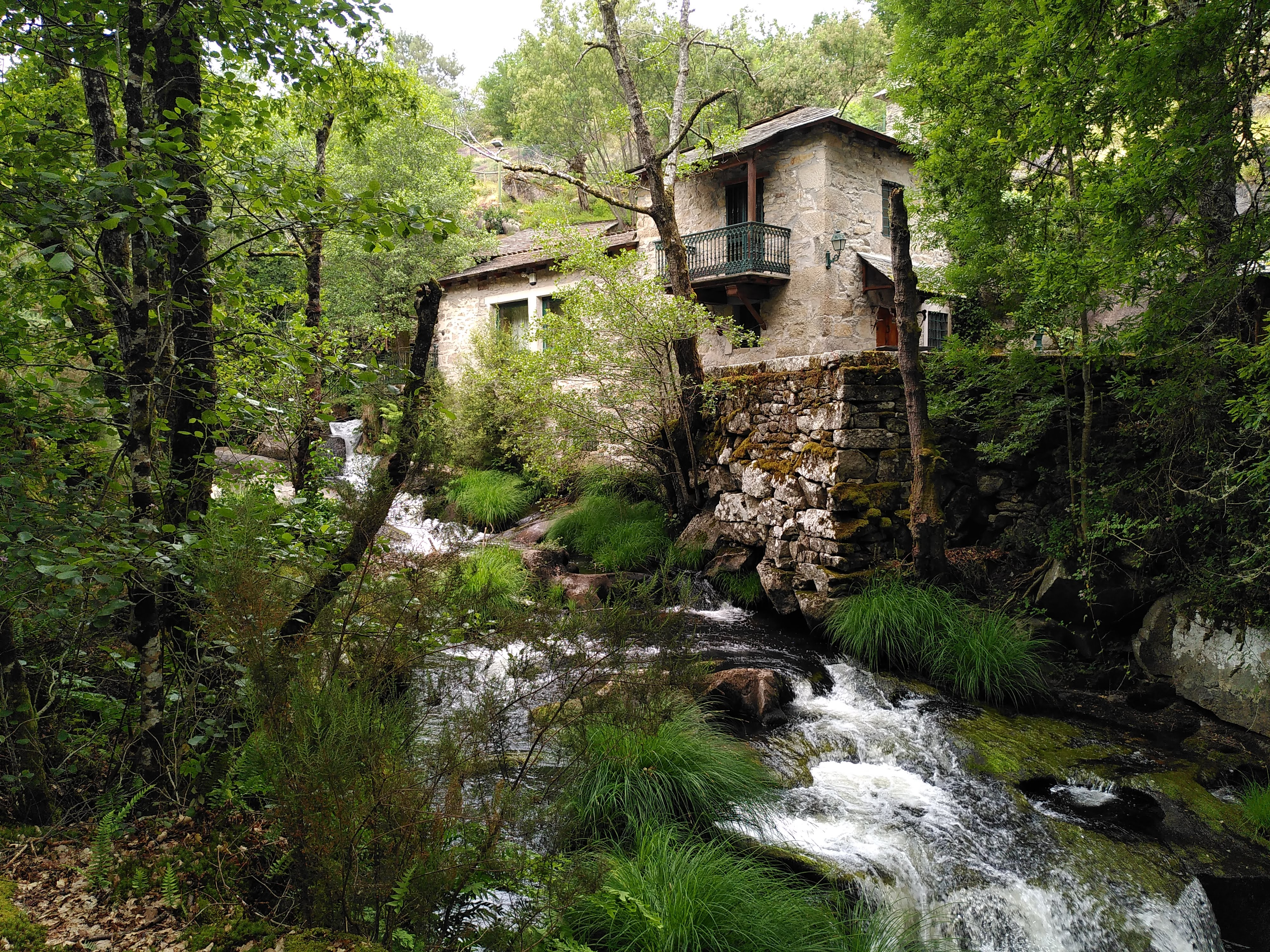 Photograph of the river Mera, with an old restored mill at the background, about two kilometers before it flows into the river Miño